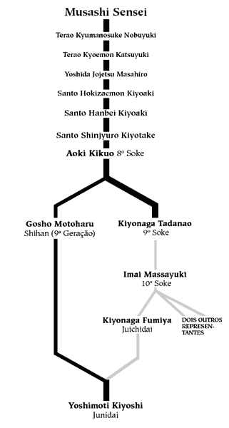 Hyoho Niten Ichi Ryu lineage